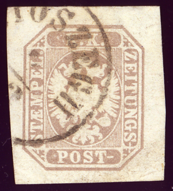 Austrian KK Journal stamp issue 1863, 1,05 kr, cancelled DIOSZEGH, Slovakia.